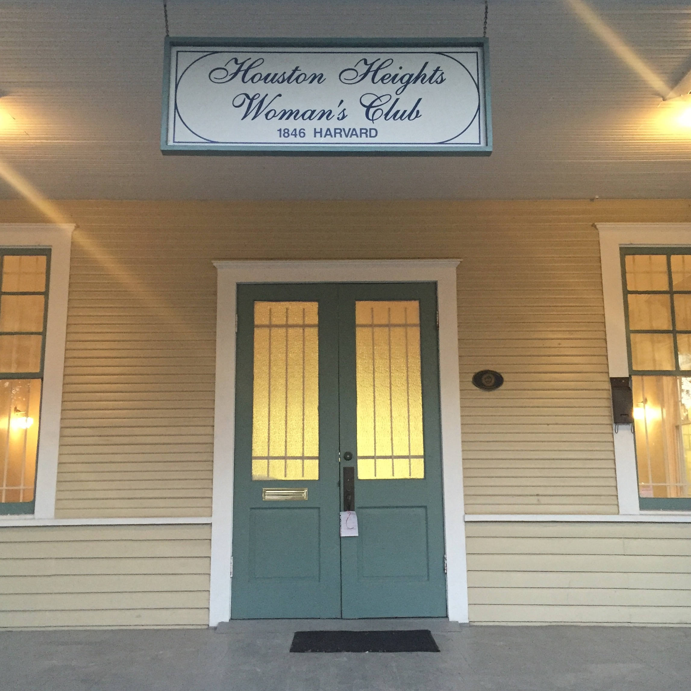 Original sign of the Houston Heights Woman's Club showing the address and the name of the club.